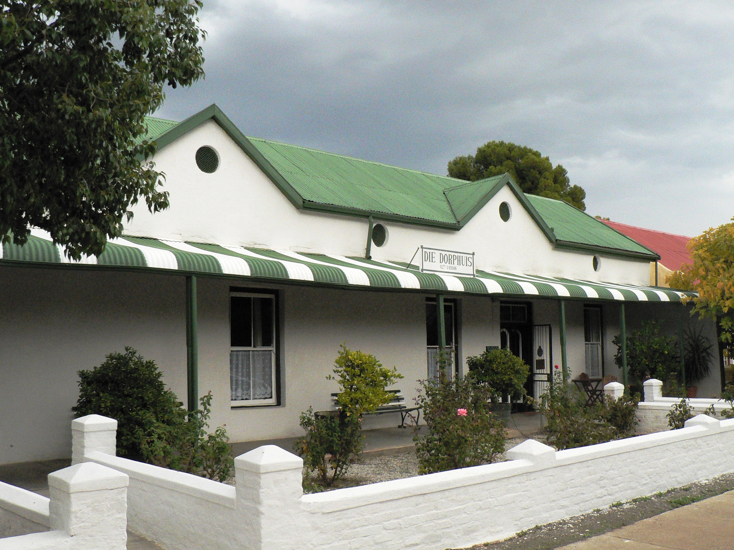 This media shows a South African Protected Site with SAHRA file reference 9/2/017/0010.